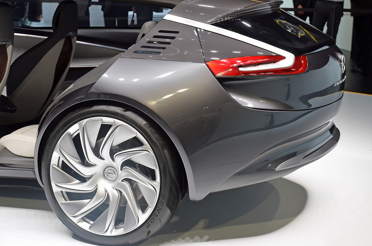 IAA Frankfurt 2013: Opel Monza Concept / Photo: Raphael Jahn ______________________ Please feel free to use this image for FREE under the Creative Commons (CC) licence. However, if you use the image, pls set a backlink to and give credit as following: "Image: ". For highres images or any other inquiries pls contact mailto: . Thanks.